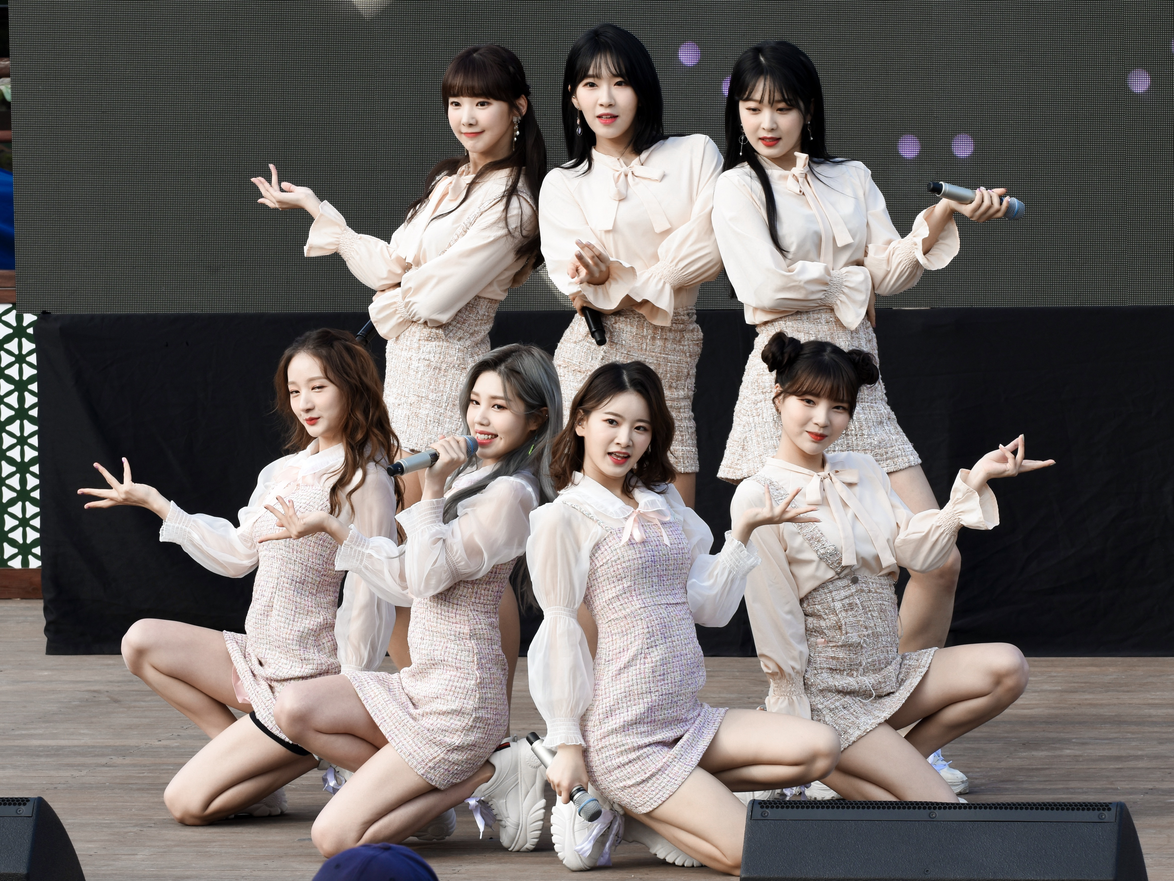 Hash Tag at the 4th Happy Festival of Urban Kids on November 10, 2019.